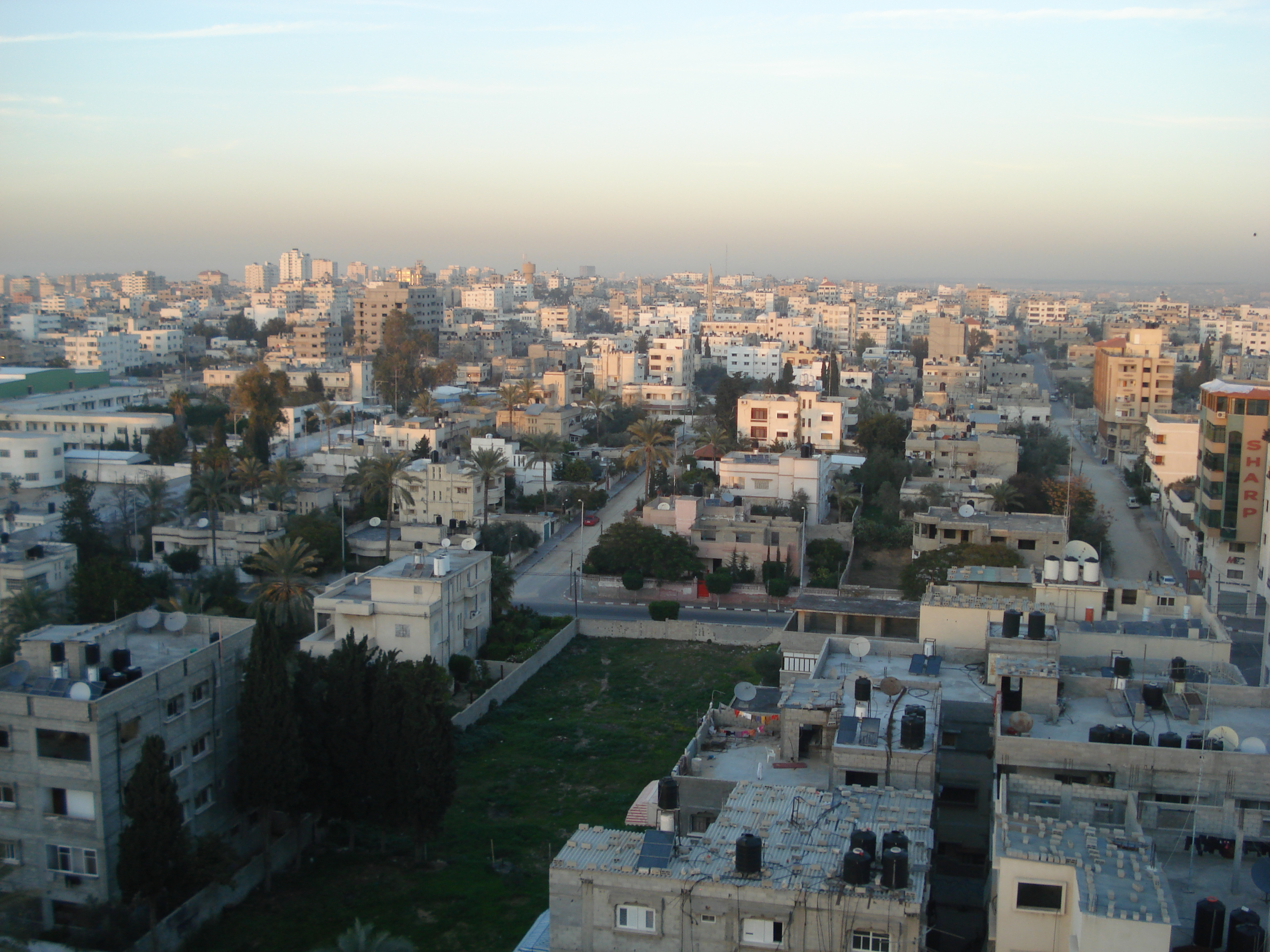 Overview over Gaza City